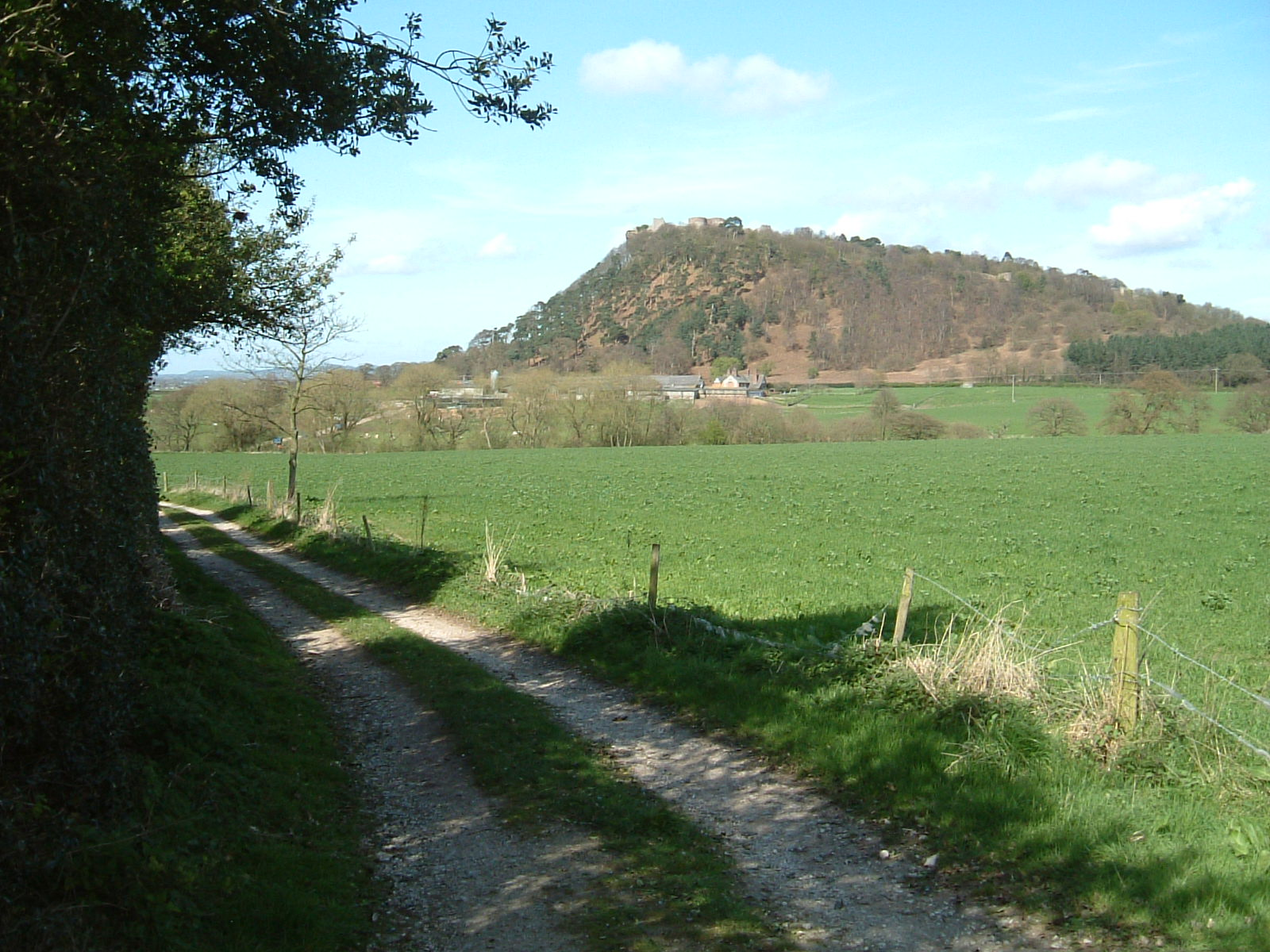 thumb|250px|right|Beeston Castle.